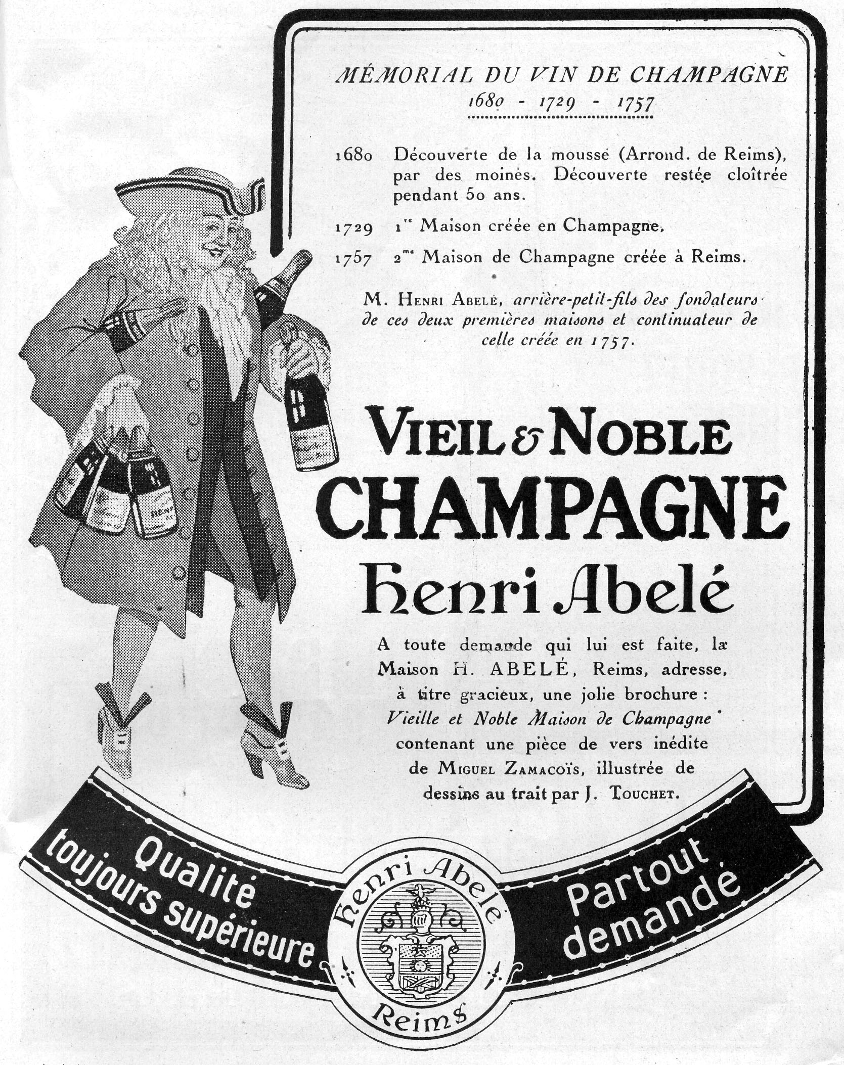 Henri Abelé advertisement of 1923